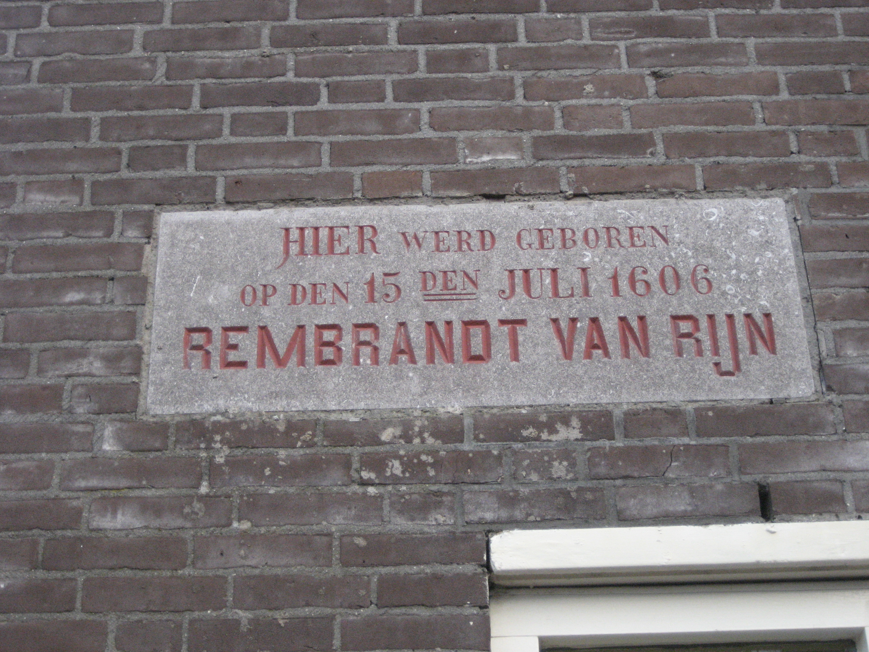 Plaque near the birth place of Rembrandt van Rijn, Weddesteeg, Leiden (The Netherlands) Text (NL): "Hier werd geboren op den 15den juli 1606 Rembrandt van Rijn". Transl. (ENG): Rembrandt van Rijn was born here on the 15th of July, 1606.